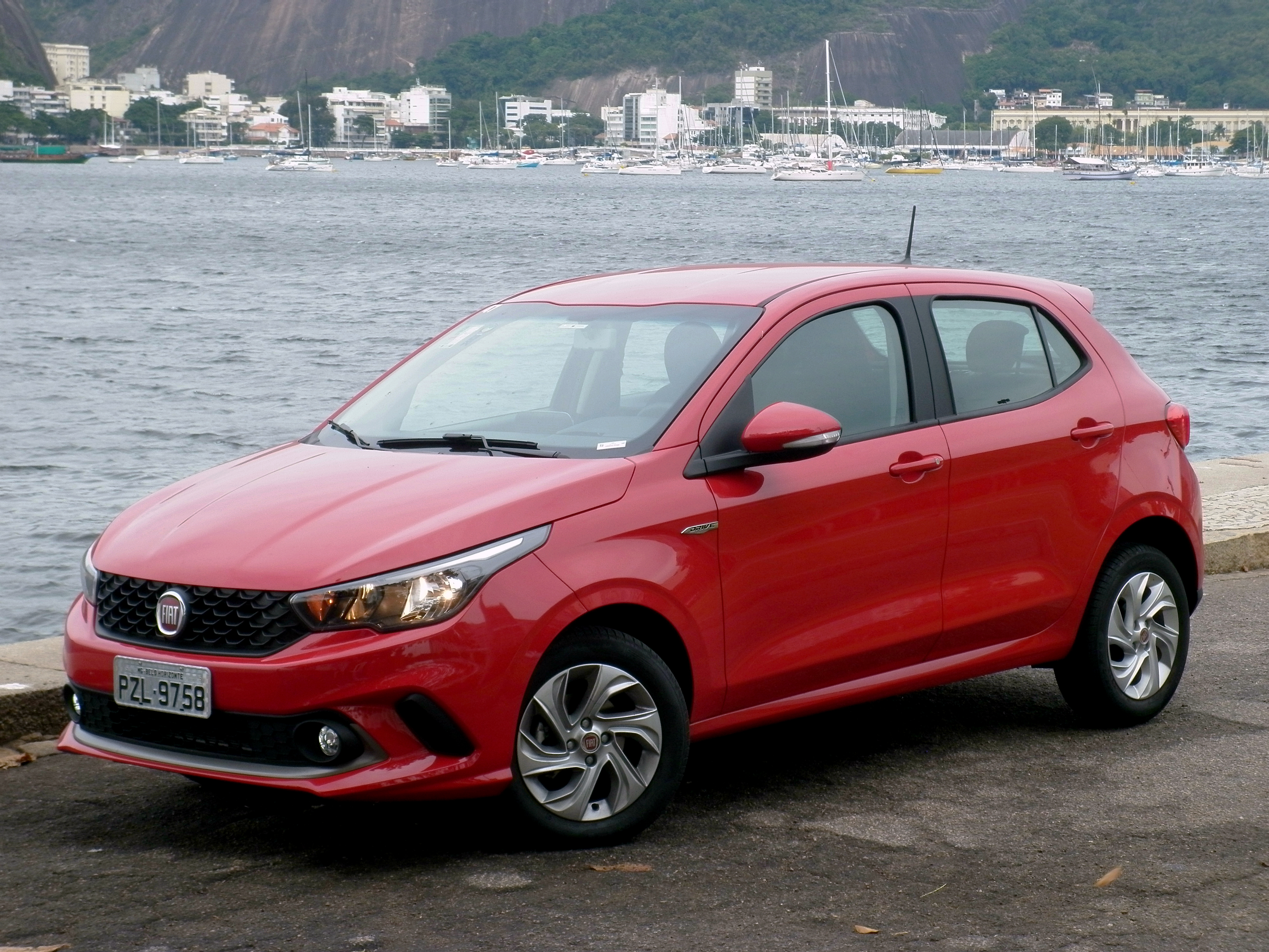 Brazilian made Fiat Argo Drive in Rio de Janeiro.